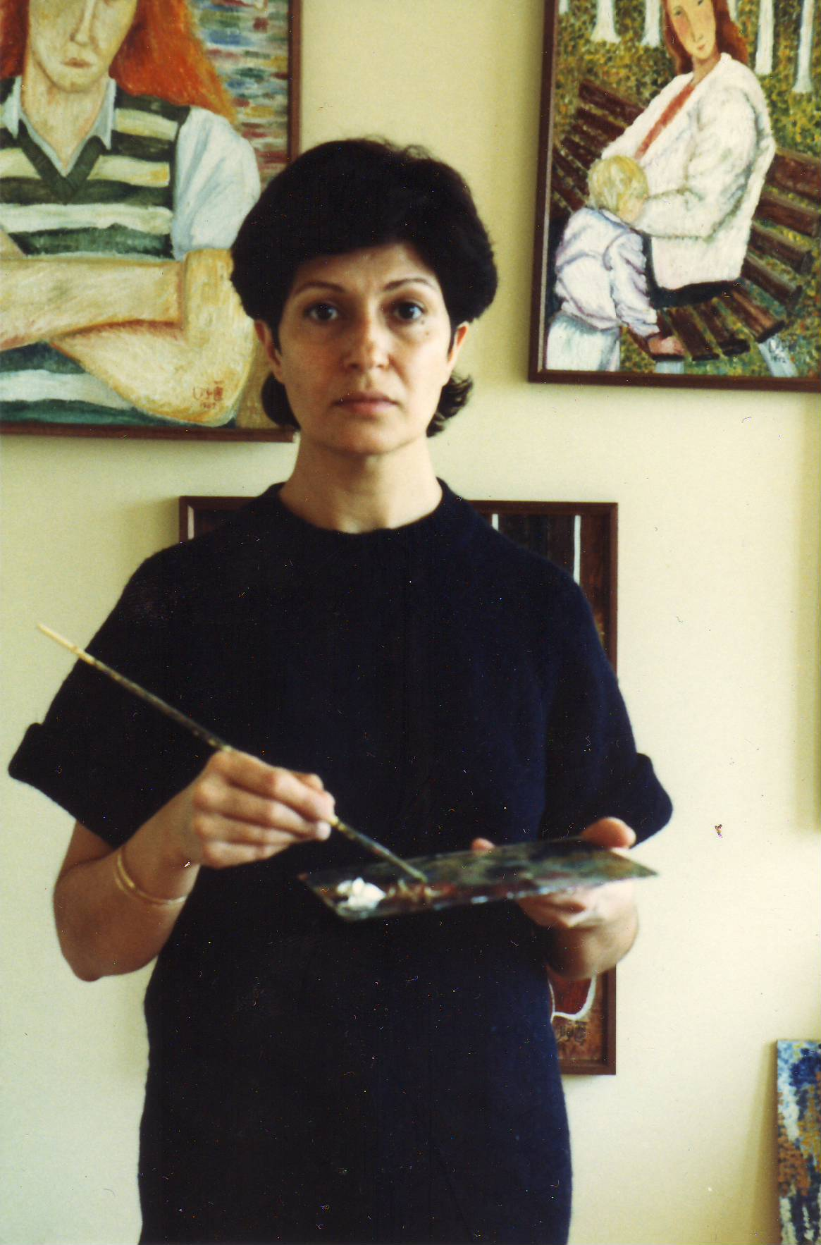 This is a photo of Guity Novin in her studio in Kingston, Ontario.